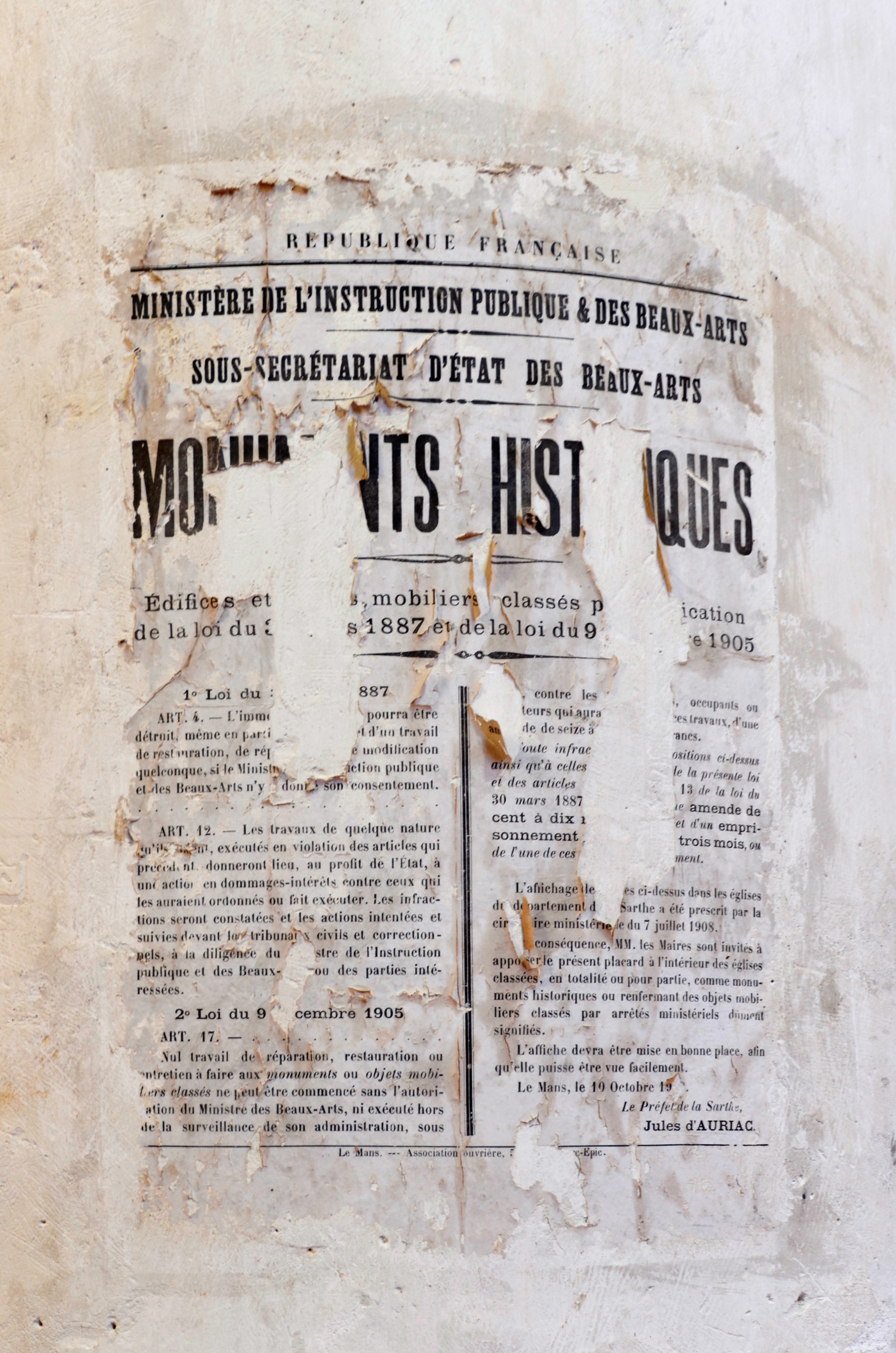 Small poster of "Monuments historiques" designation on a pillar of Notre-Dame-de-l'Assomption church - Parigné-l'Évêque - Sarthe, France .